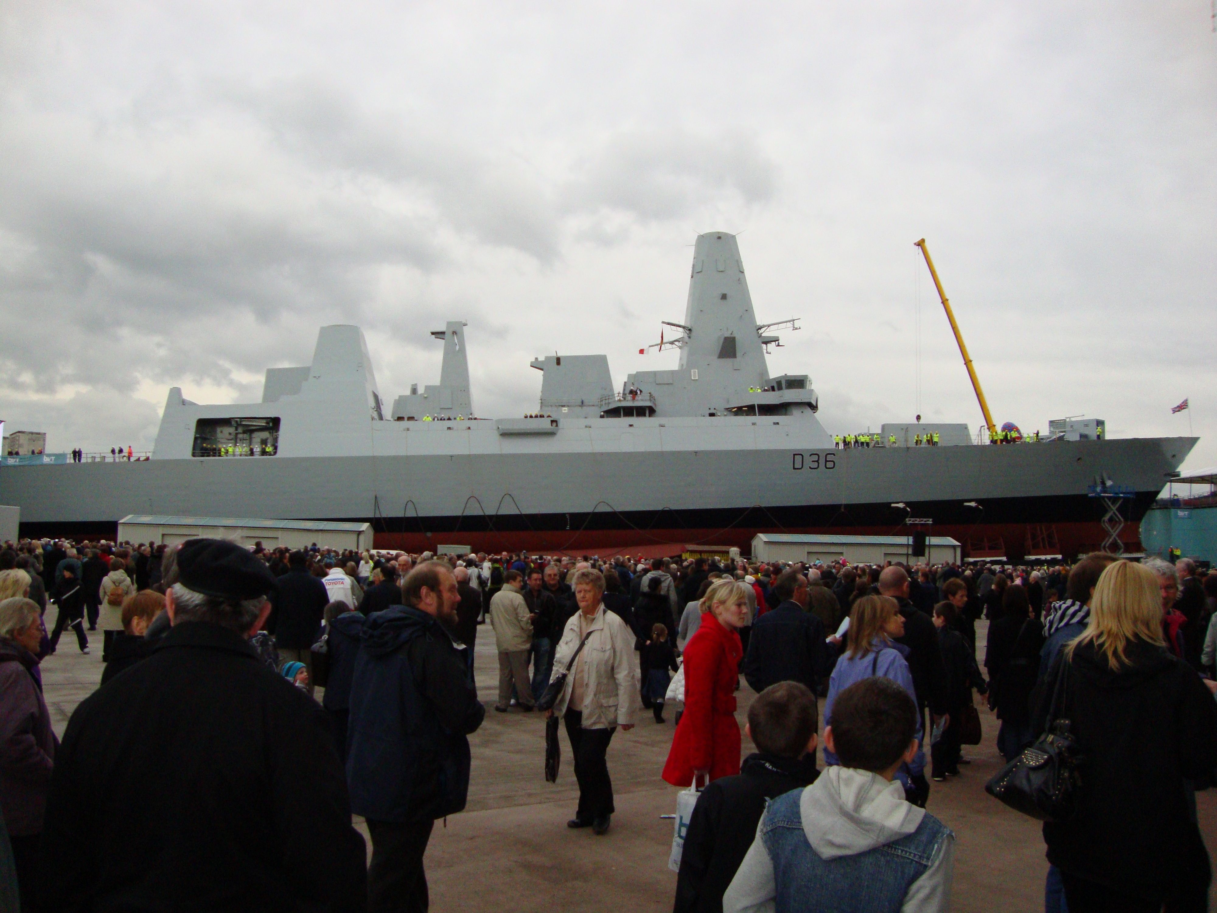 HMS Defender (D36) at launch in Govan